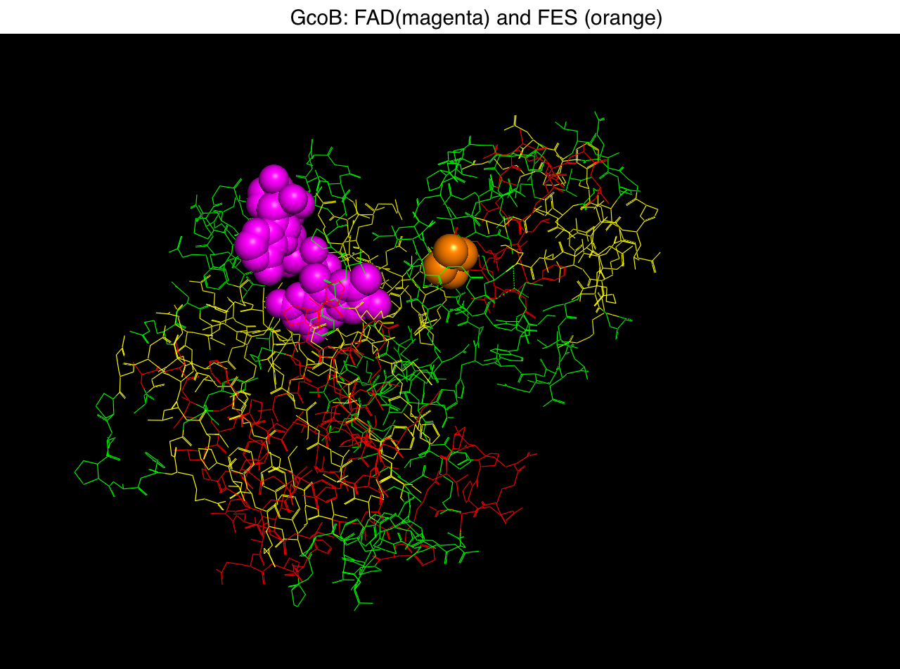 Molecule structure for GcoB